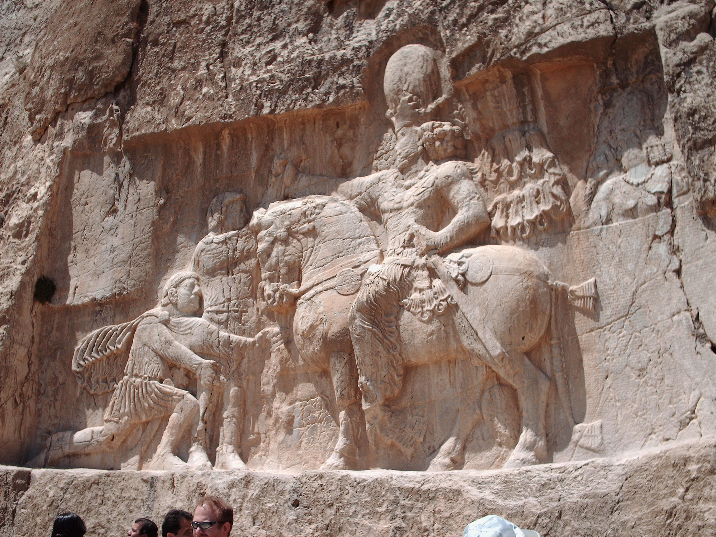 Sasanian king Shapur Ist's rock relief at Naqsh-e Rostam (said Naqsh-e Rostam VI), celebrating his victories over roman emperors Valerian Ist and Philip the Arab. Iran, City of Marvdasht, Province of Fars.